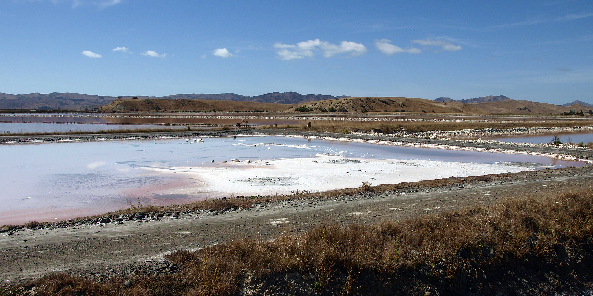 Saline of Lake Grassmere, Marlborough Region, South Island, New Zealand